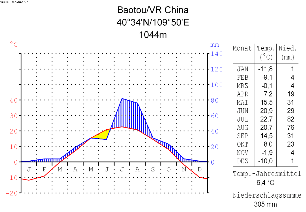 climate chart in the format by Walter and Lieth, metric, °Celsisus and millimeters, made with Geoklima 2.1